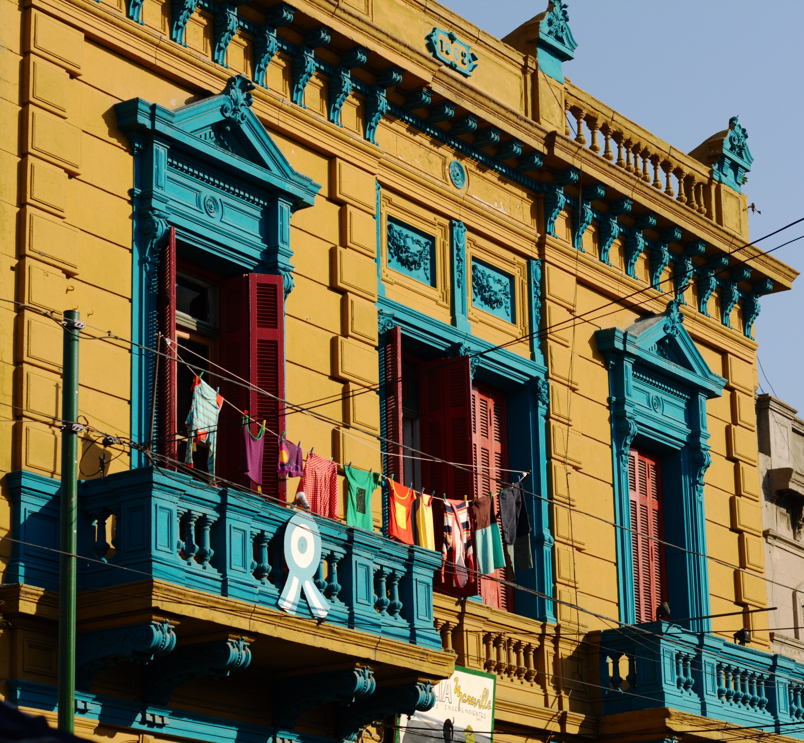 Caminito, La Boca, Buenos Aires, Argentina.